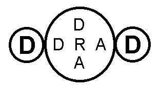 First logo of Drahtwarenfabrik Drahtzug Stein